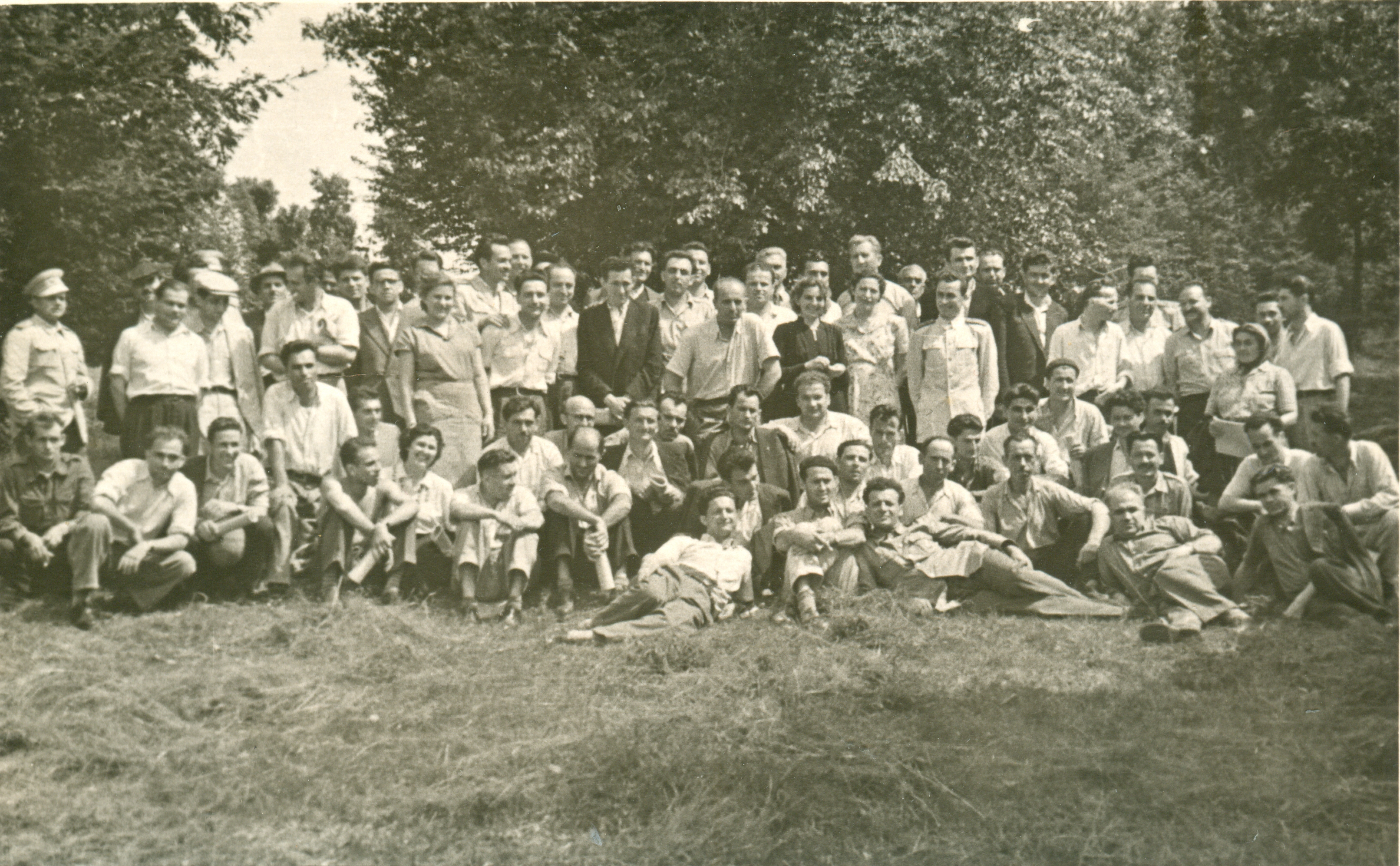 Meeting of the surviving partisans of the IX Brigade of the 23rd Serbian Division in Knjazevac Srpski (latinica): Susret preživelih boraca IX brigade 23. Srpske divizije u Knjaževcu